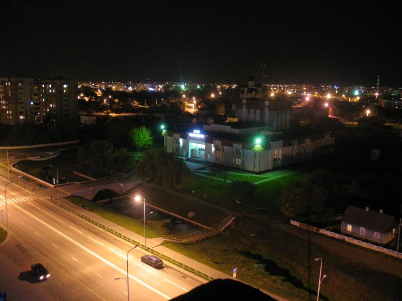 Ivacevichi at night